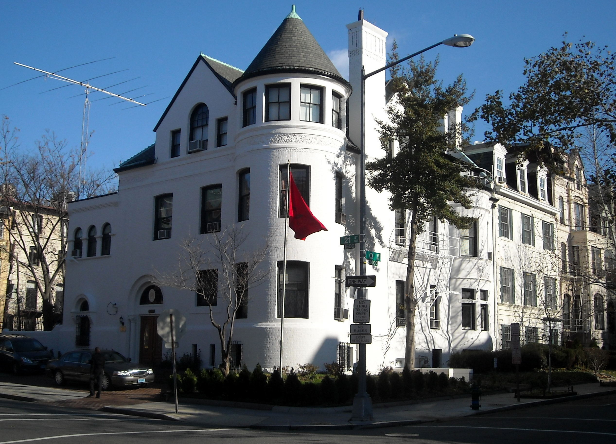 The Embassy of Morocco (since 1962), located at 1601 21st Street, N.W., in the Dupont Circle neighborhood of Washington, D.C. Built in 1889, the former residential building is a contributing property to the Dupont Circle Historic District. Previous occupants include: attorney George William McLanahan (son of Representative James Xavier McLanahan; member of the Cosmos Club); Representative Jacob Sloat Fassett; Assistant Secretary of the Navy Theodore Roosevelt, Jr. (son of President Theodore Roosevelt); Lieutenant Colonel Jerome van de Erve; Representative Andrew James Peters; Senator Dwight Morrow; attorney James F. Duggan (counsel to the National Labor Relations Board); educator Cline M. Koon; attorney Katherine Boardman Fite (assistant to Supreme Court Justice Robert H. Jackson during his role as chief U.S. prosecutor at the Nuremberg Trials); and hydrologist Thomas S. Southwick.